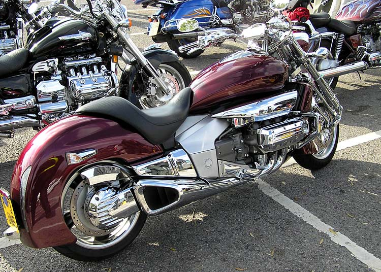 Honda Rune seen at Aust Services, Bristol, England. Capacity: 1832cc. Top speed approx 121 mph. Uses a Flat Six engine from the Honda Goldwing. Built in Ohio, USA. Taken by Adrian Pingstone in October 2004 and released to the public domain.